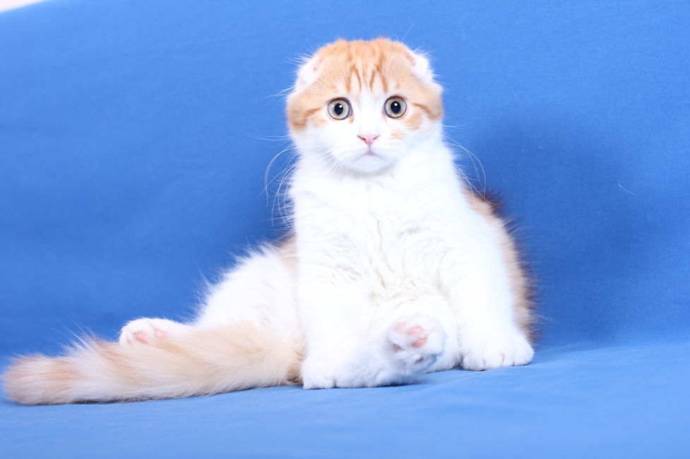 Rumfold Red Bull Scottish Fold Longhair